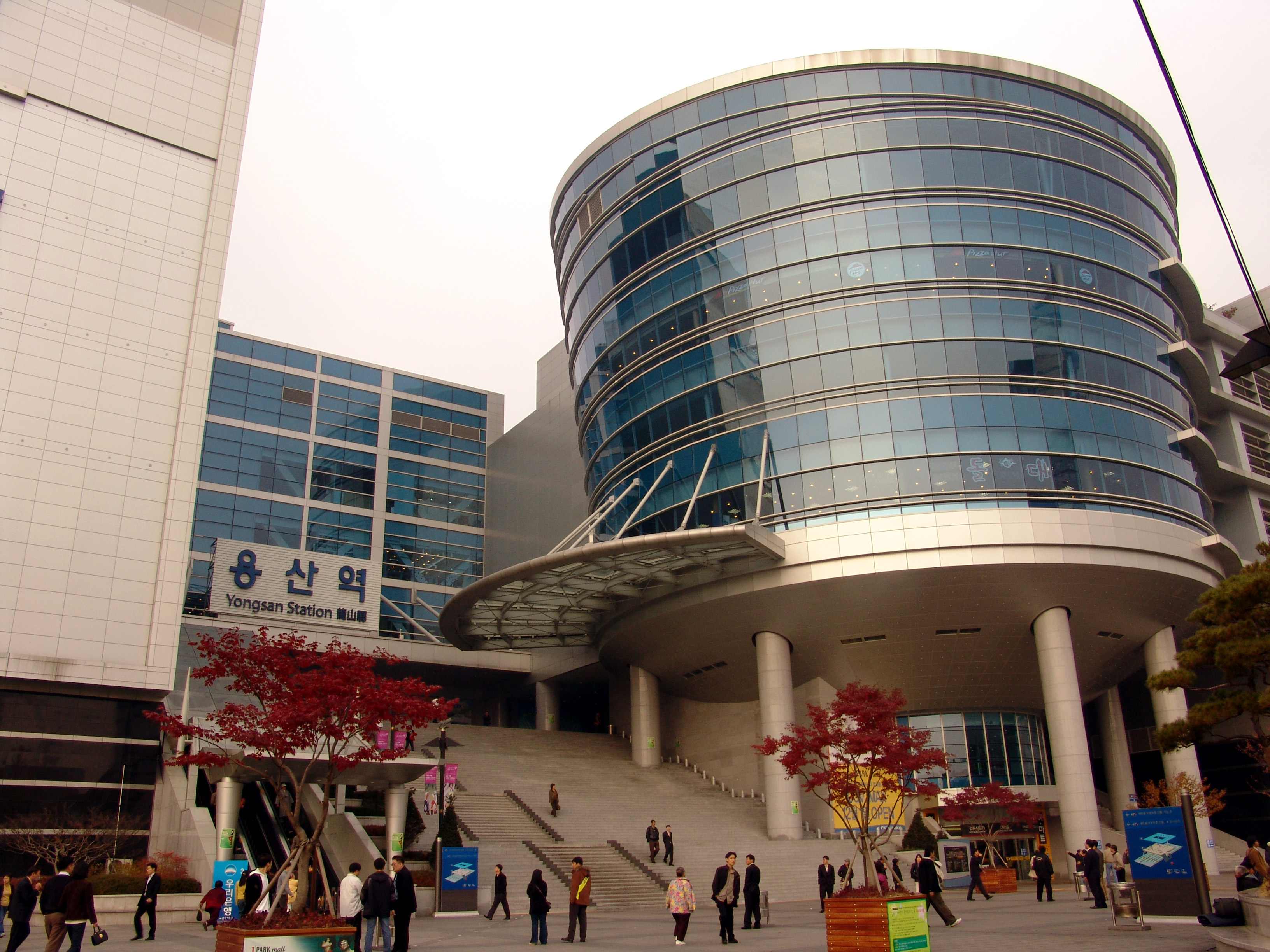 The main entrance of Yongsan Station. I took the picture